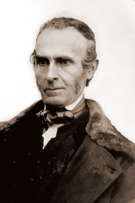 BPLDC no.: 07_05_000031 Call no.: Cab.G.3.22b Title: John Greenleaf Whittier Creator: Date: 1840-1860 (approximate) Publication: Extent: 1 photograph : quarter plate ambrotype ; in case 11 x 8.5 cm. Genre: Ambrotypes; Portraits Notes: Subjects: Whittier, John Greenleaf, 1807-1892 BPL Department: Rare Books Department